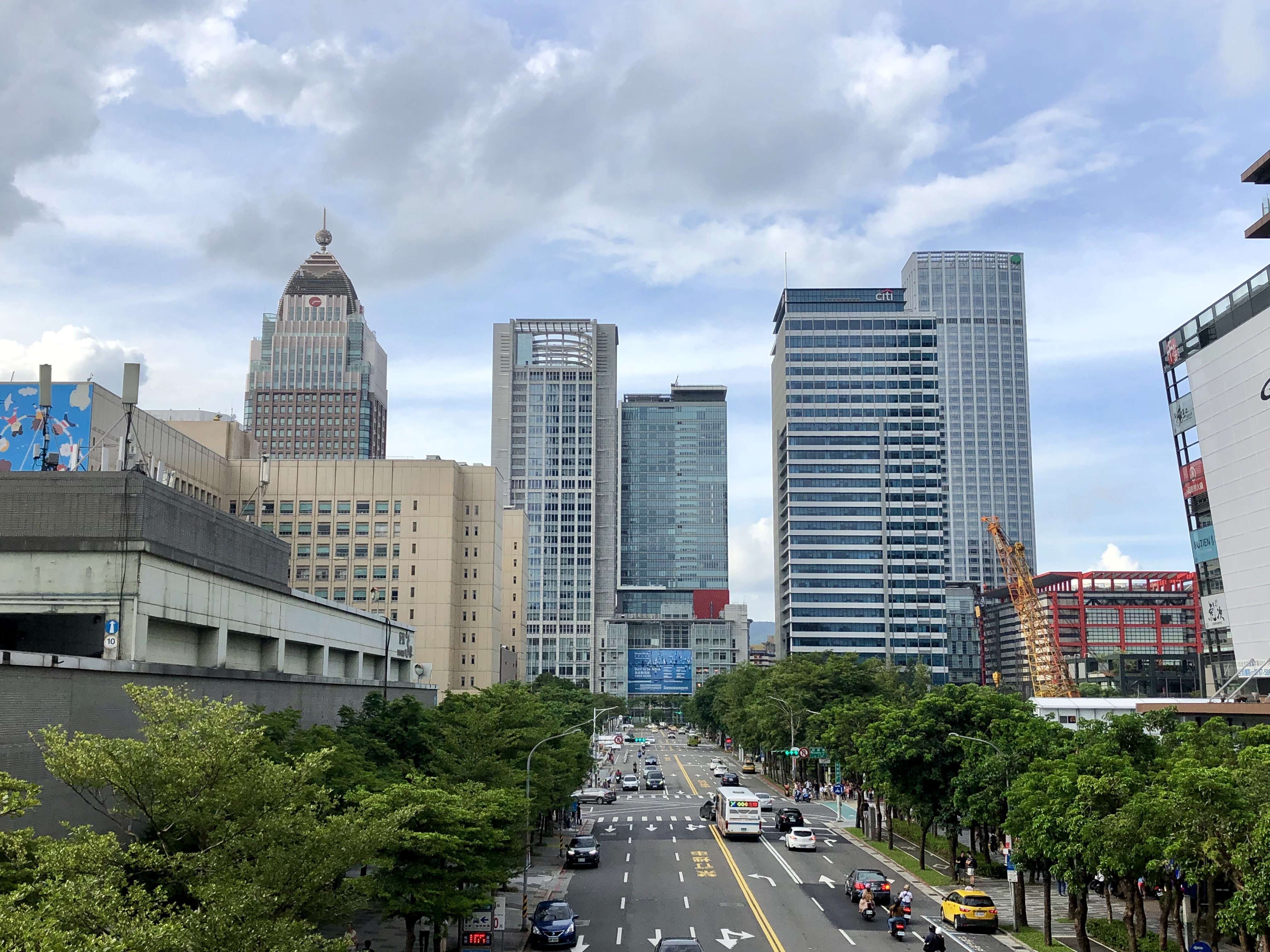 View of Taipei skyline from skybridge across Songren Road in August 2019